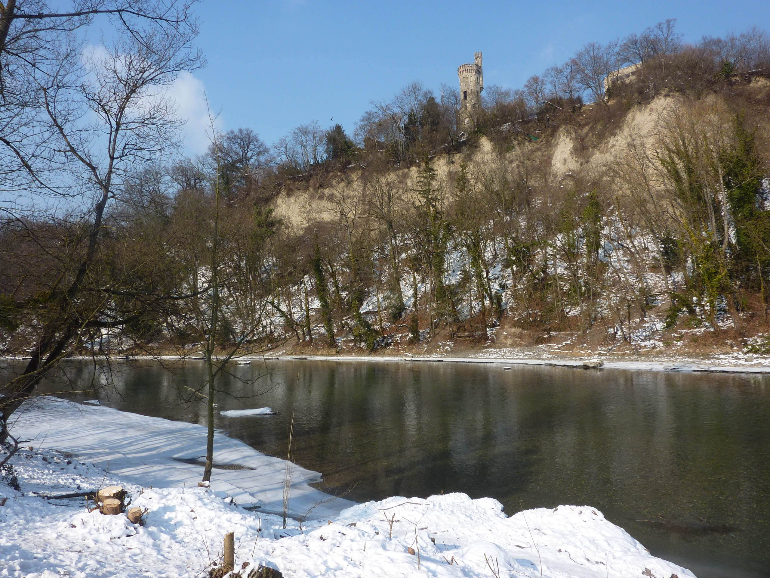 Arve River in Geneva, Switzerland